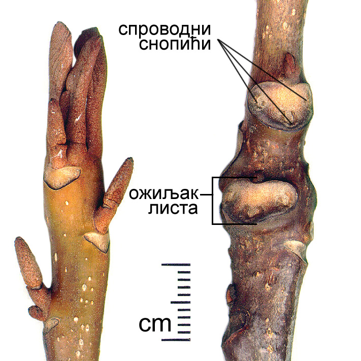 Pterocarya leaf scars